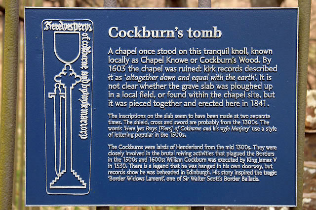 An information plaque at Cockburn's Tomb. Attached to the railings around the grave 951349 of Pierce Cockburn and his wife Marjory. Apparently, he was the owner of Henderland towards the close of the 13th and beginning of the 14th centuries and founder of the chapel that stood on this site.